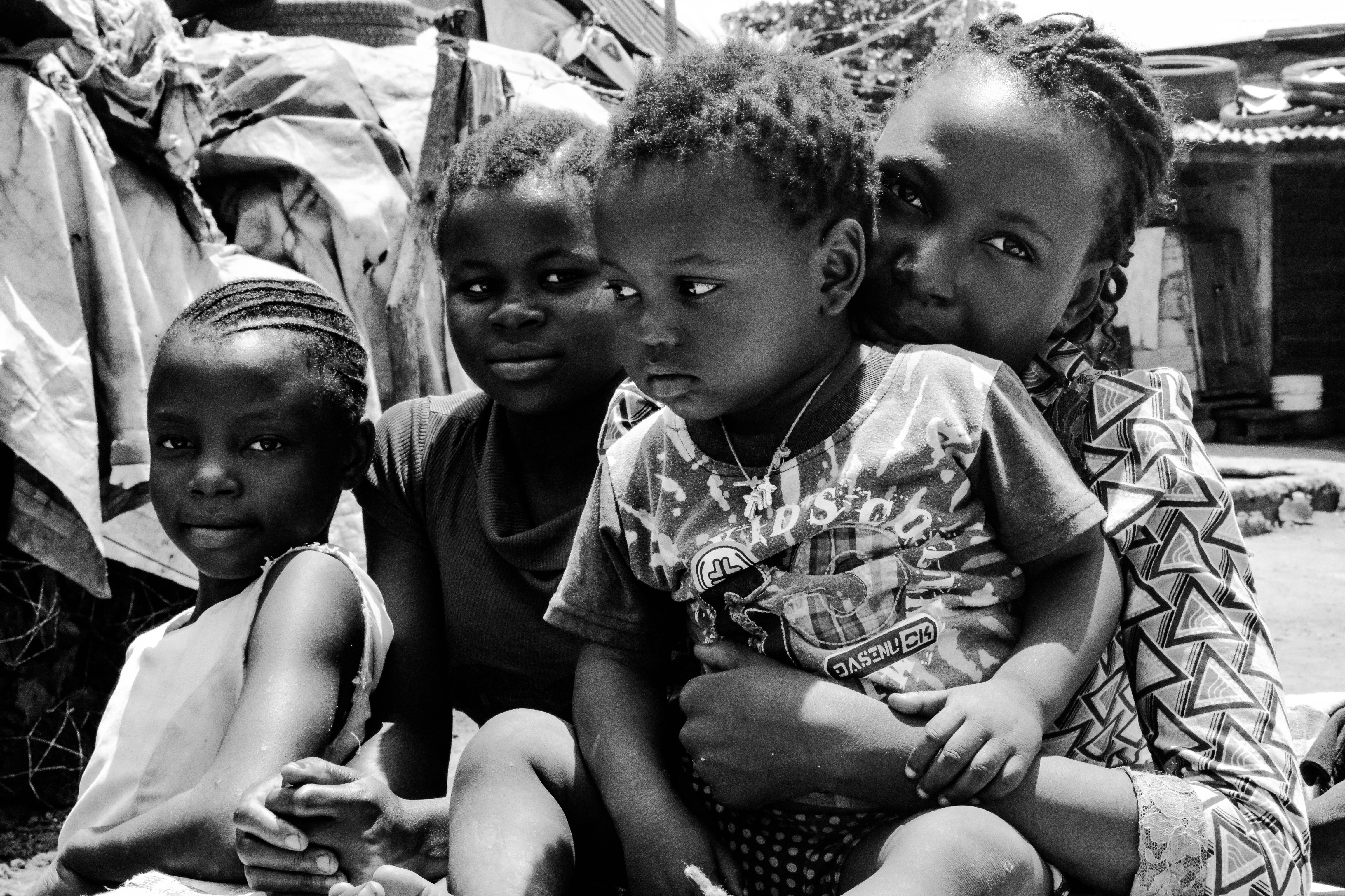 Children deserve better